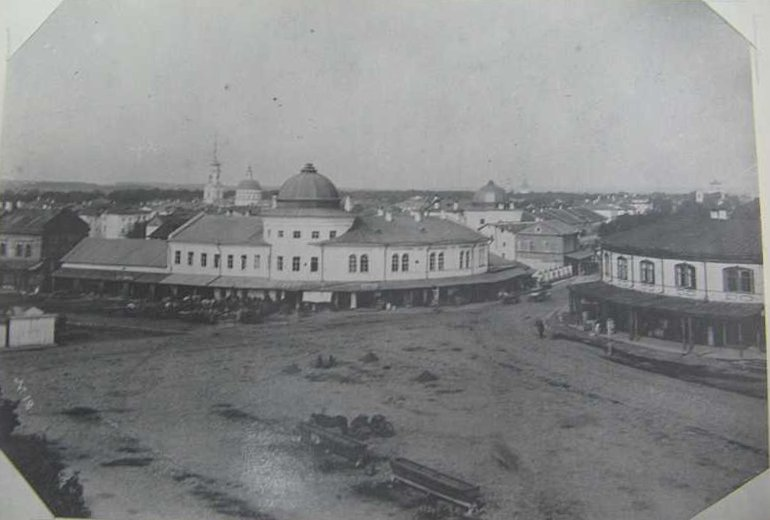 Vologda — Afanasievskaya Square and Kamenny Most. One of the south towers at center.